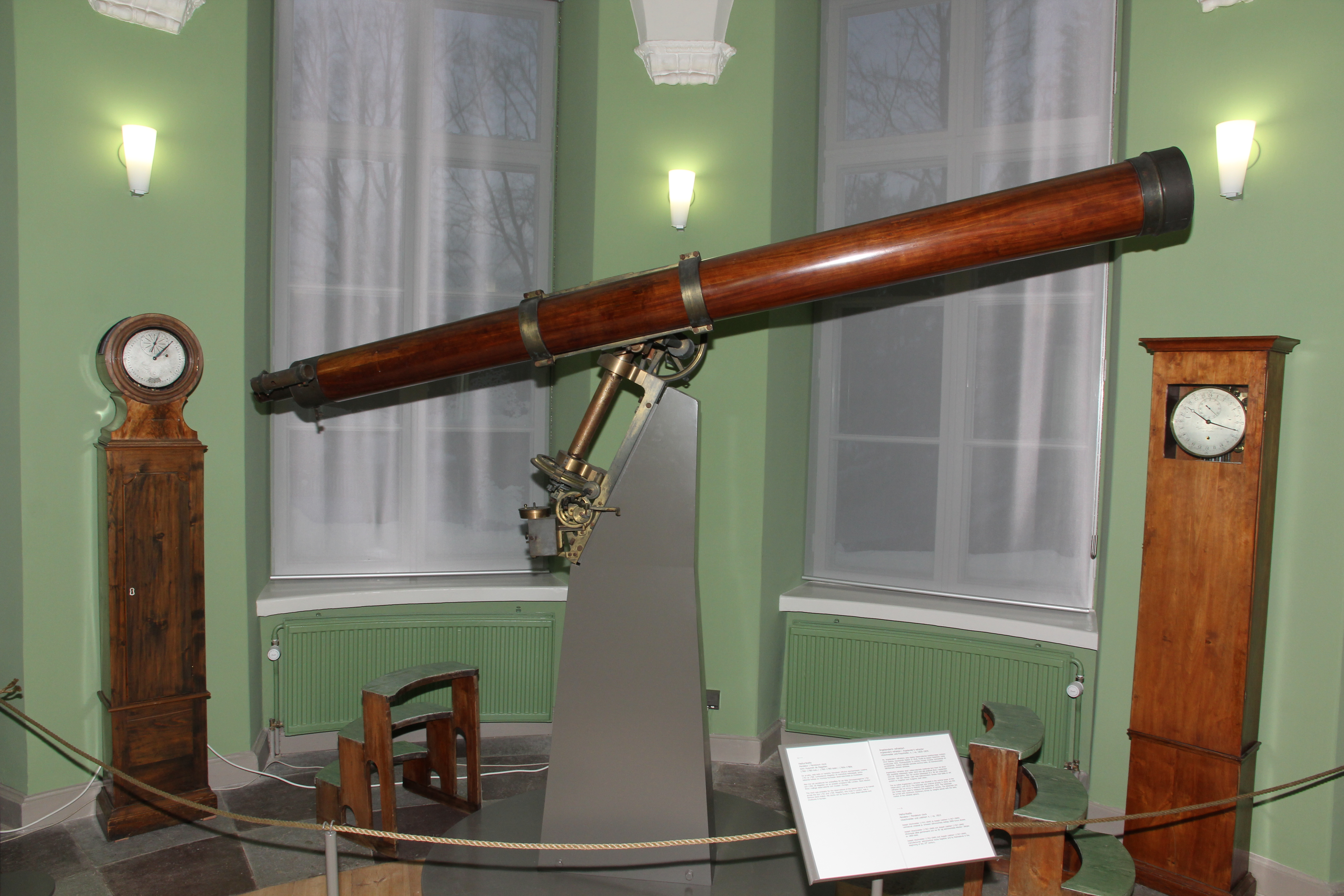 Argelander's refractor from ca. 1820-1835 preserverd in Helsinki observatory western rotunda. The two astronomical pendulum clocks are from 1760s-1780s (left) and ca. 1823 (right).